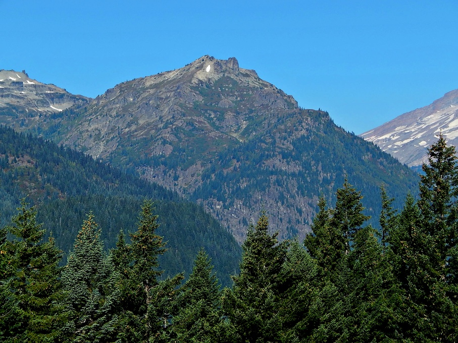 Stevens Peak seen from highway. Tatoosh Range of Mount Rainier National Park